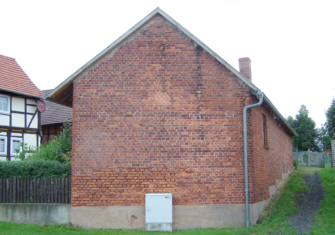 The closed factory of the last potter of Werra-ceramic in the region